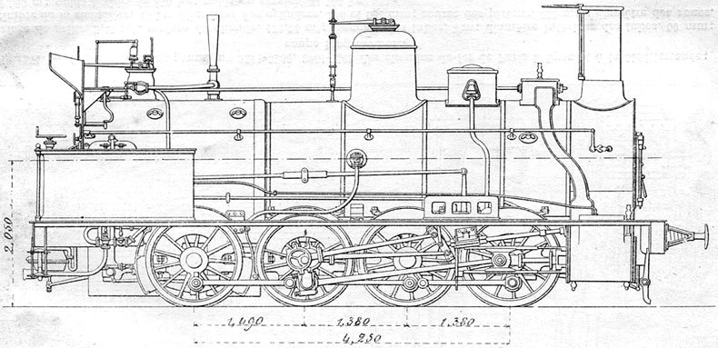 Drawing of steam locomotive Nord 040.